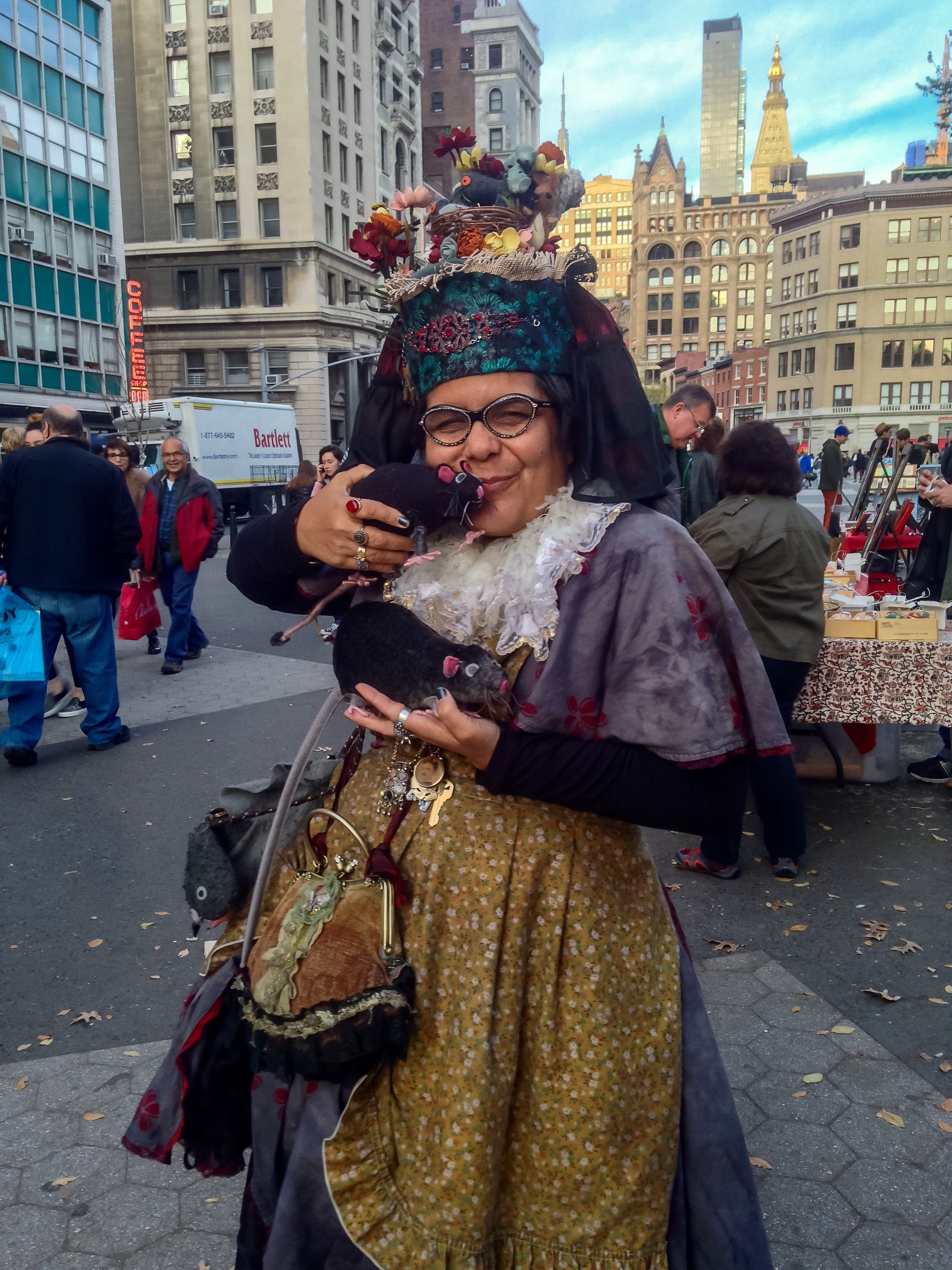 Mother Pigeon holding her rats, in an art installation